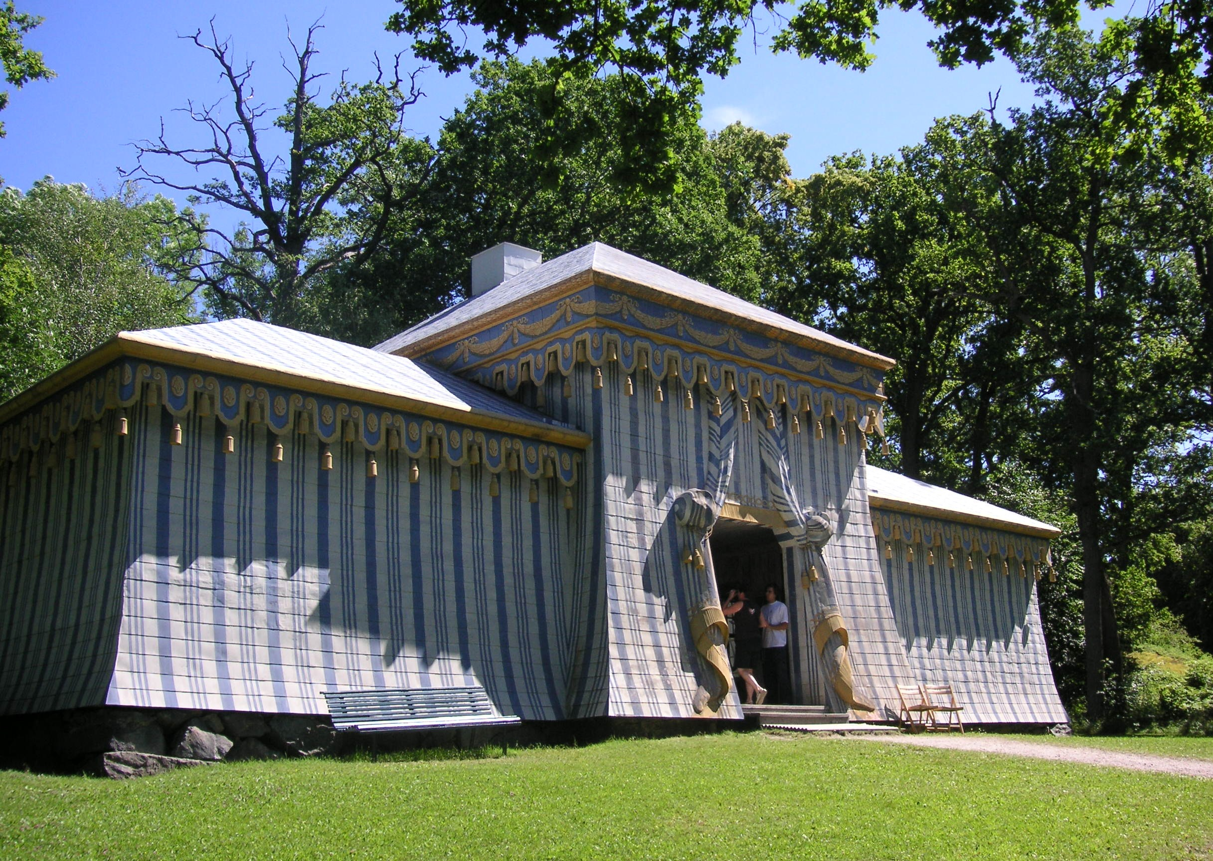 Royal Domain of Drottningholm, Guard's tent